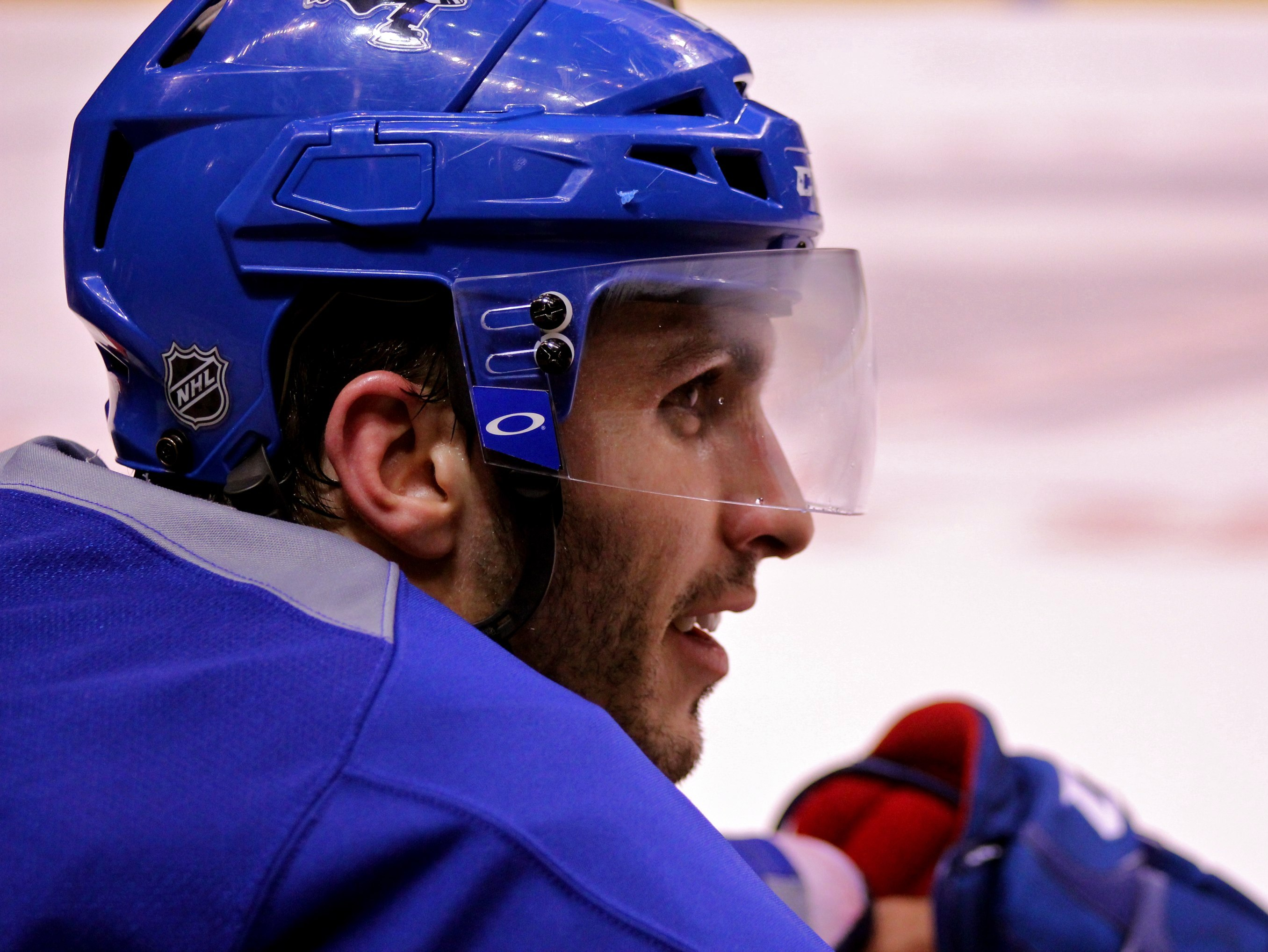 Vancouver Canucks forward Maxim Lapierre during a practice on March 9, 2012.